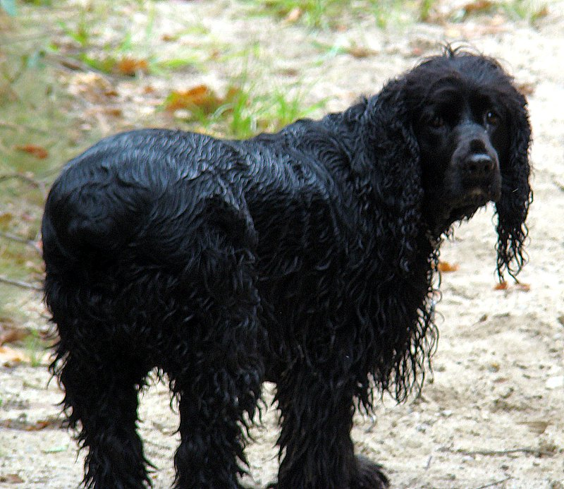 my dog, lily, after enjoy a smelly romp through a fetid bog near home. what a pest. lily is a field spaniel.